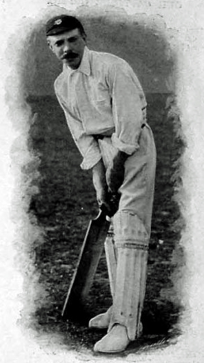 Robert Abel, Surrey professional cricketer.